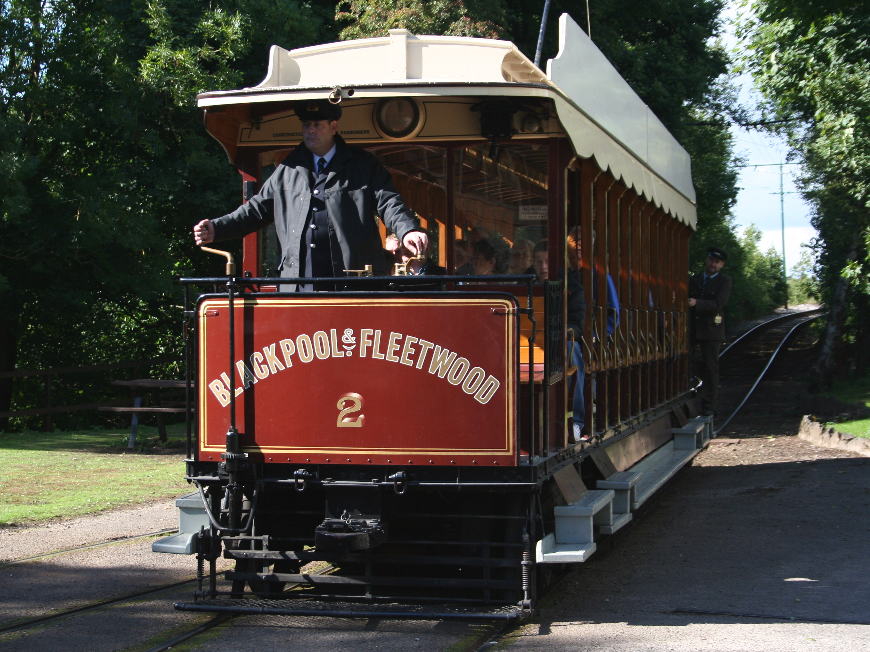 Crich Tramway Museum Extravaganza